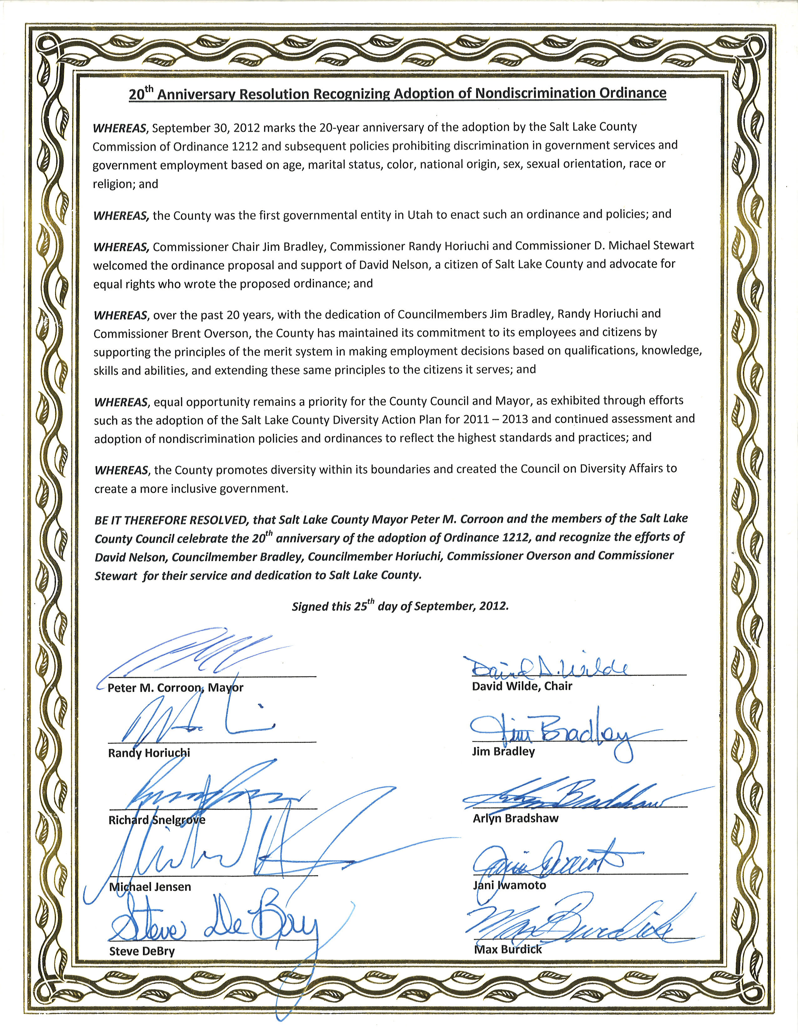 Salt Lake County joint commemorative resolution presented to David Nelson on Sept. 25, 2012 in Salt Lake City at the county Council Chambers. For use at WP: David Nelson (Utah activist)